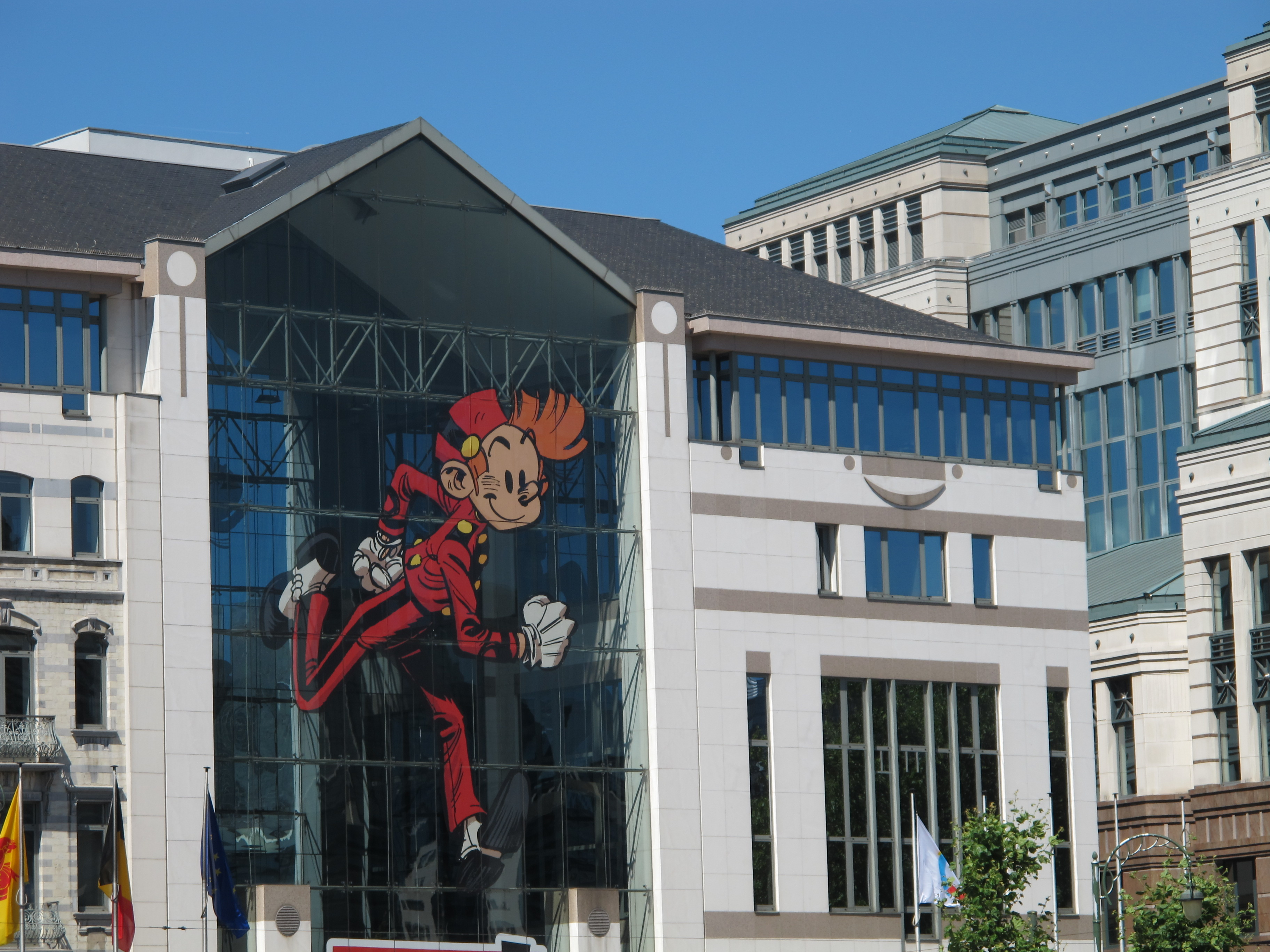 Part of the Brussels Comic Book Route